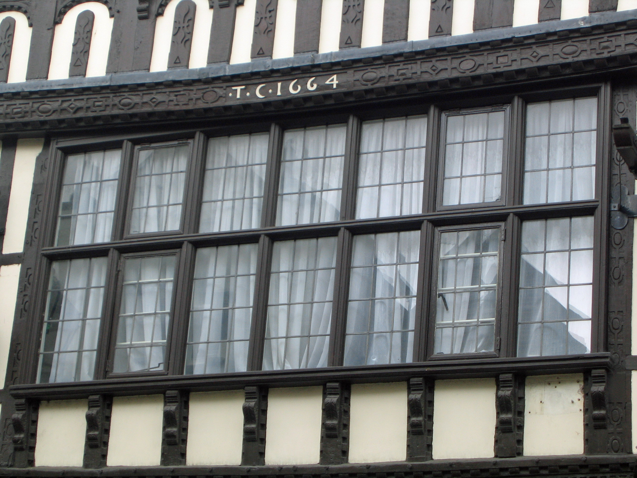 Photograph of the inscription on Cowper House, Bridge Street, Chester, Cheshire, England